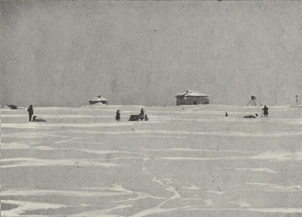 The measurement station for northern lights measurements on Matotchkin Schar, Nowaya Semlja, Russia, during the Norwegian Aurora Polaris Expedition 1902-1903. From the book, The Norwegian Aurora Polaris Expedition 1902-1903, Volume 1: On the Cause of Magnetic Storms and The Origin of Terrestrial Magnetism, Section 2. Chapter VI: p. 32.